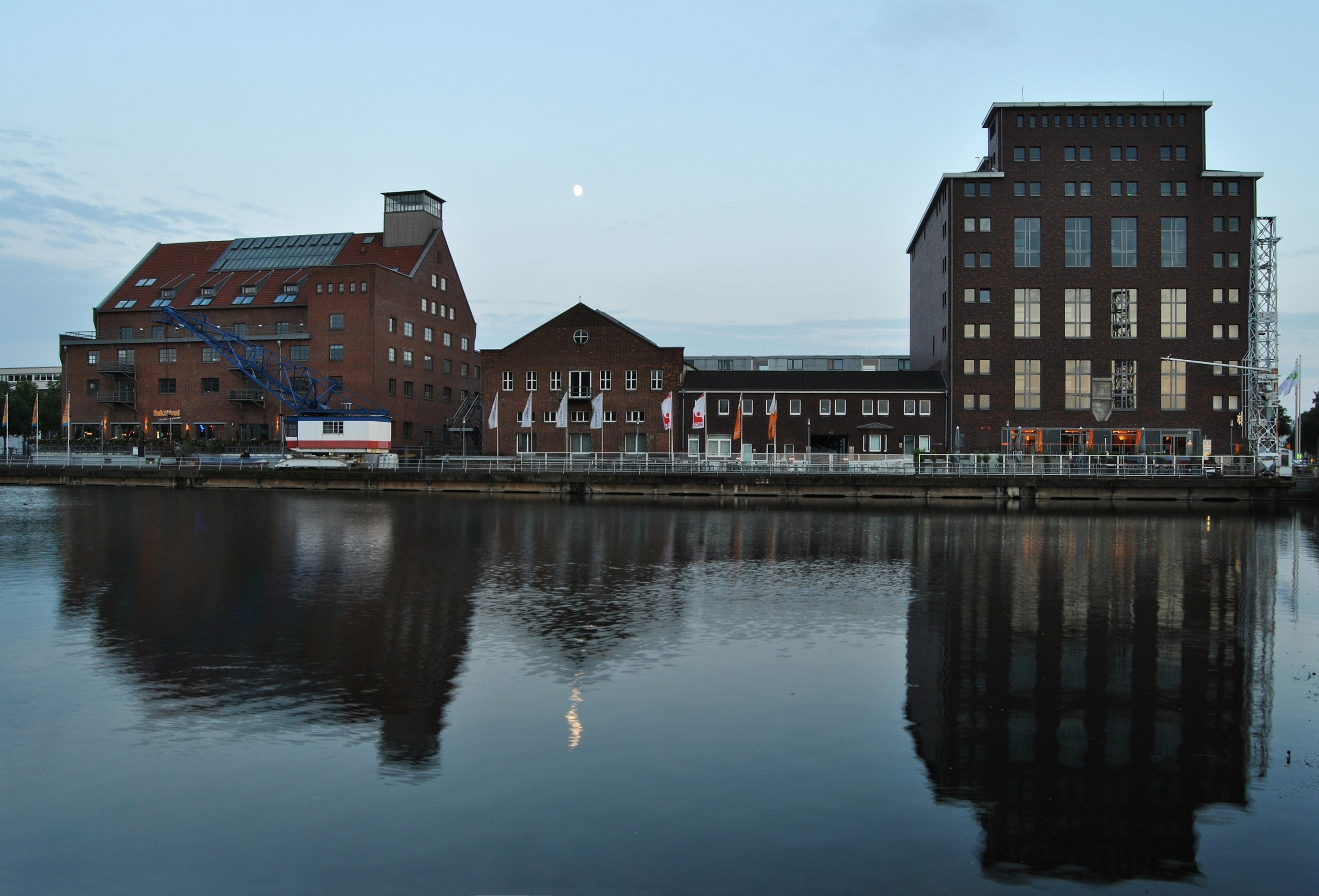 Duisburg (North Rhine-Westphalia, Germany) – Inner Harbour at the eveningThis photograph was taken with a Nikon D3000